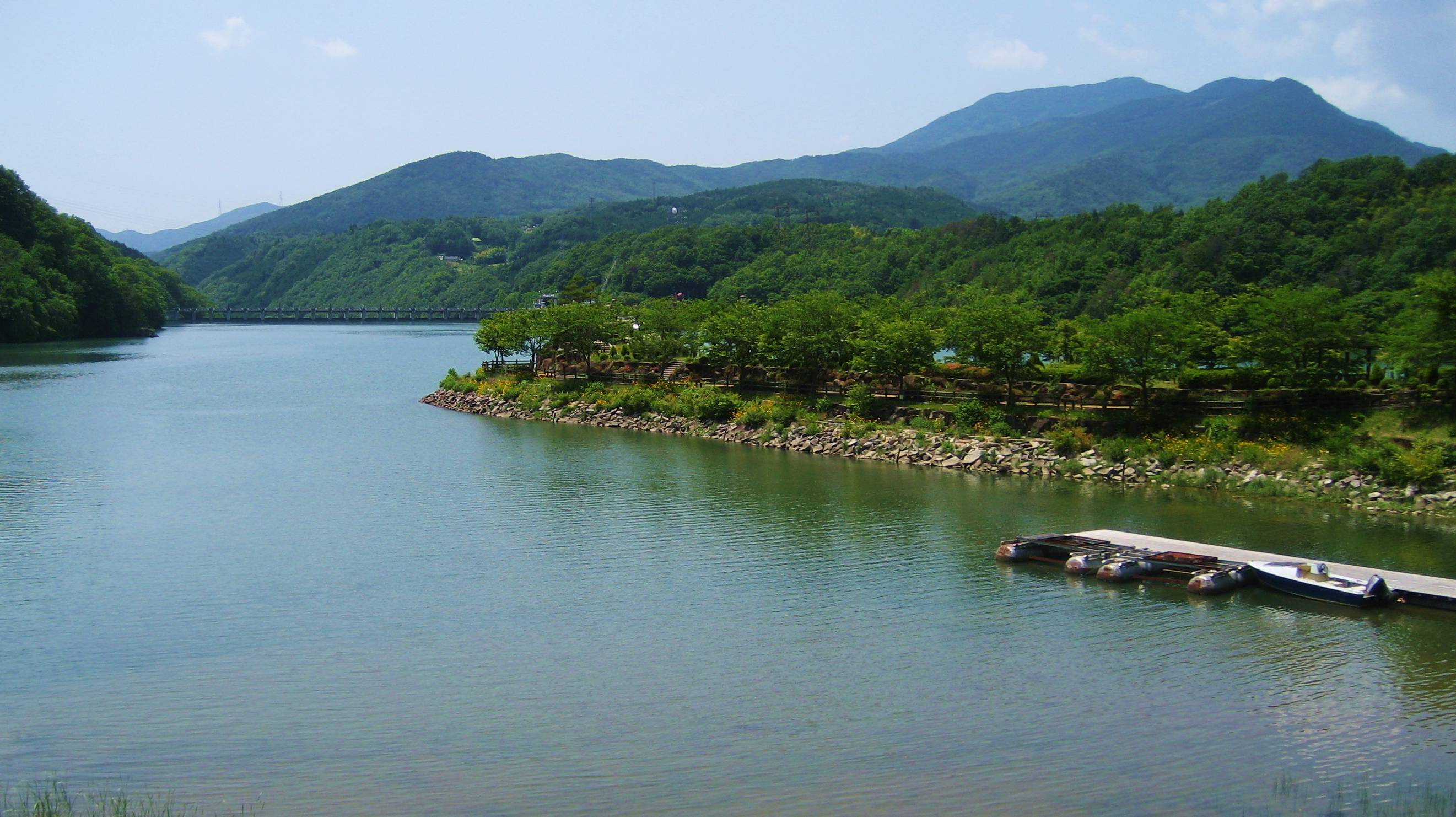 Enakyo.